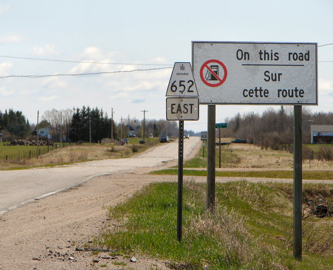 Highway 652 at intersection with highway 574, Ontario, Canada